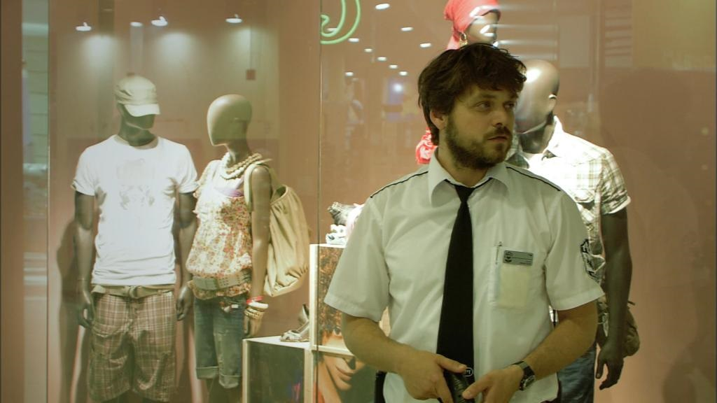 Ohad Knoller